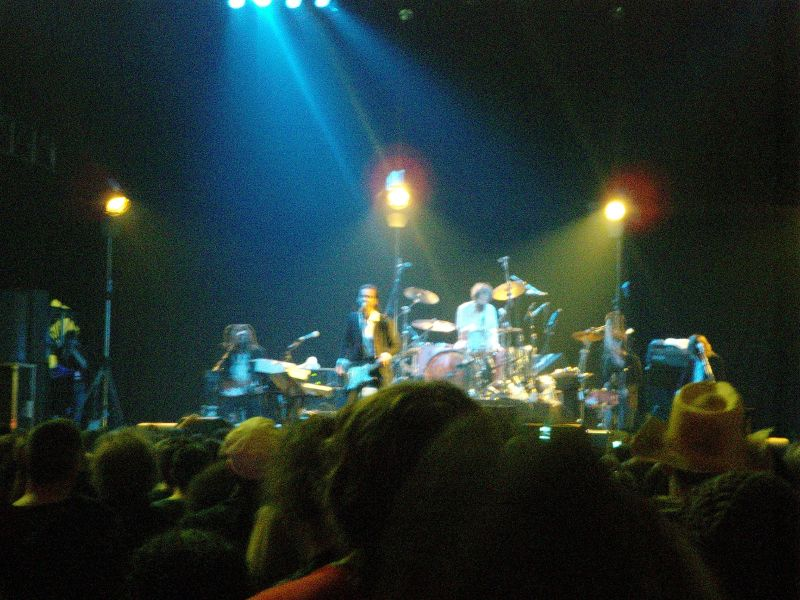 Grinderman Concert